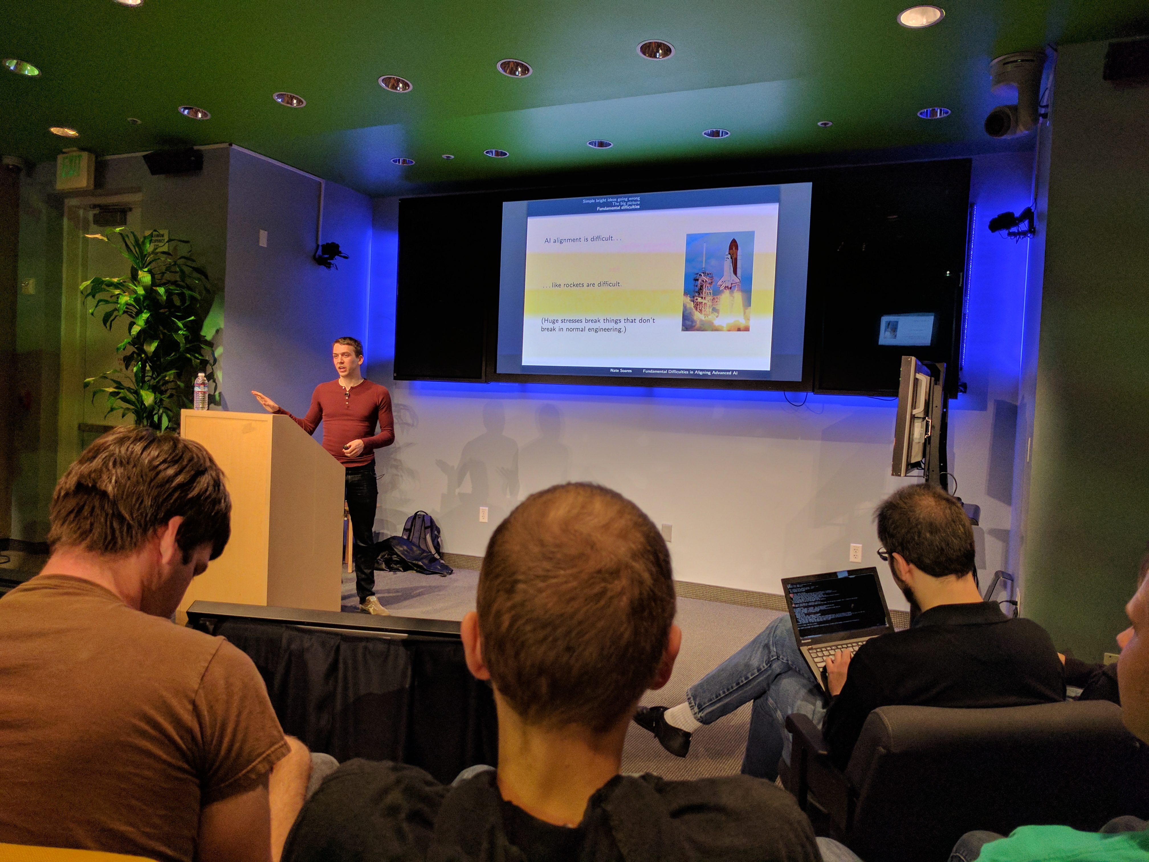 Nate Soares of the Machine Intelligence Research Institute giving the talk "Ensuring Smarter-than-Human Intelligence has a Positive Outcome", on the Google campus.